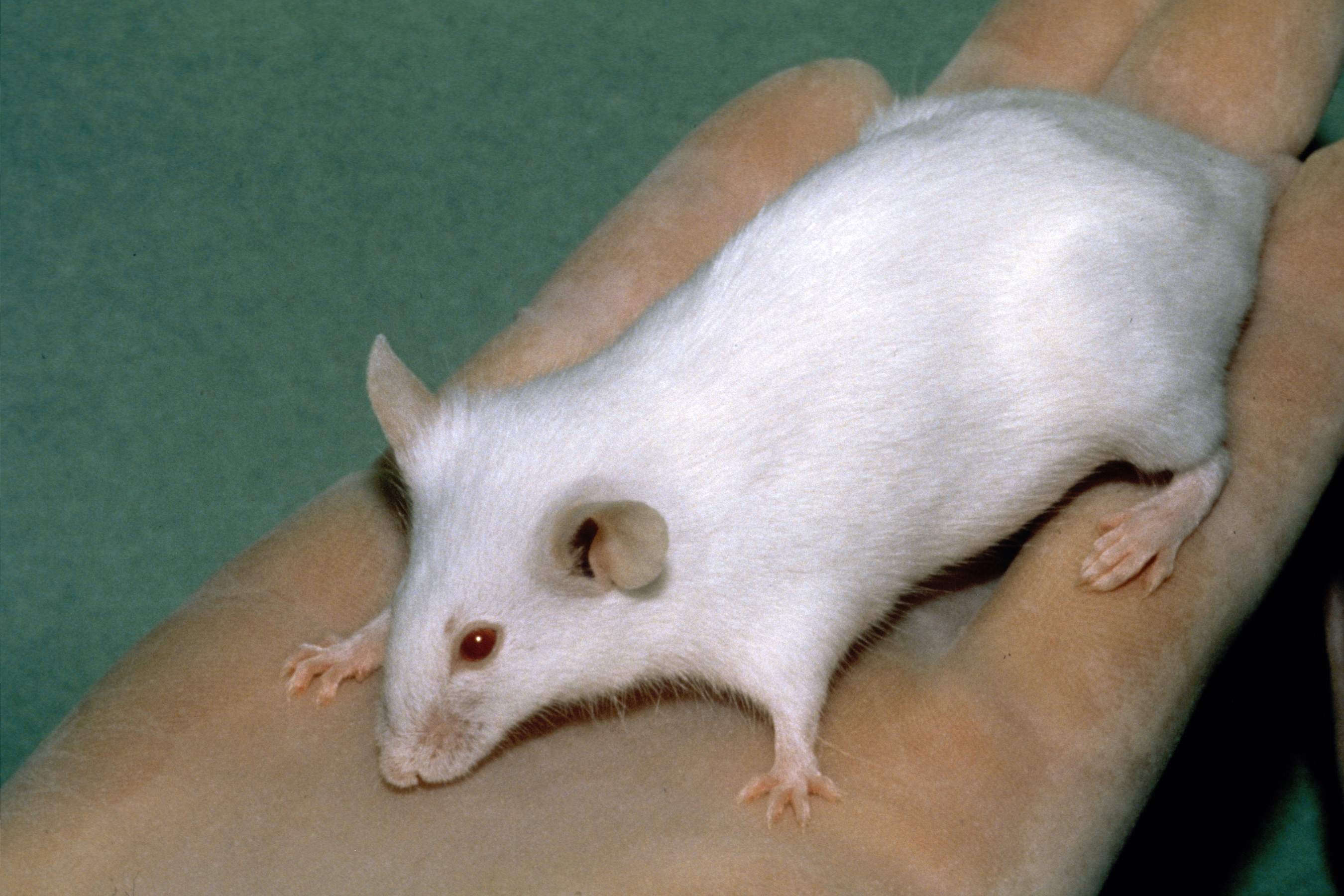 Title SCID Mouse Description A close-up of white Severe combined immunodeficiency (SCID) mouse held by a human hand. Topics/Categories Animals Type Color, Photo Source National Cancer Institute